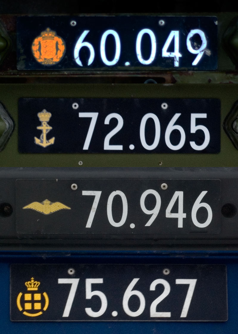 Danish military license plates. The three first are the old style; the top: Army and Navy, Air Force. The last is the new joined style introduced in 2009, which replaces the older styles.